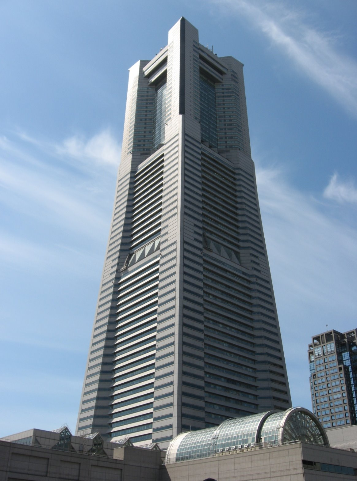 Yokohama Landmark Tower